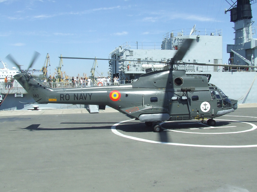 IAR 330 Puma Naval helicopter successfully ended the first flight.